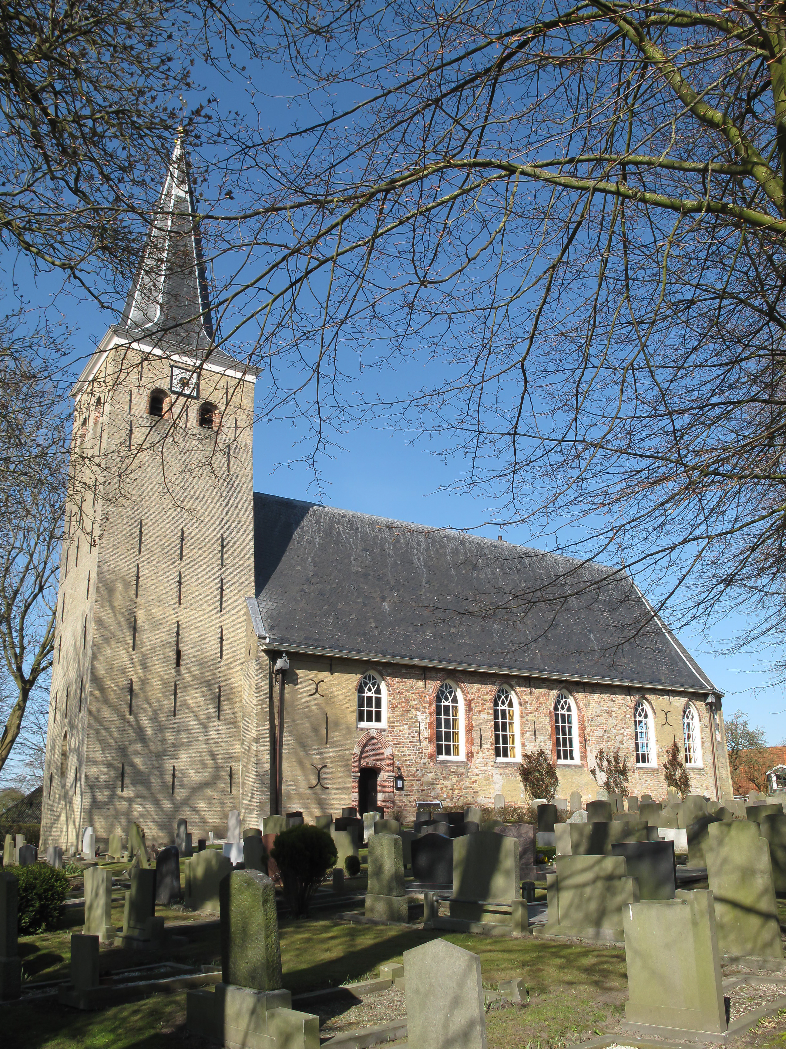 Marsum, Friesland, church: de Sint Pontianuskerk